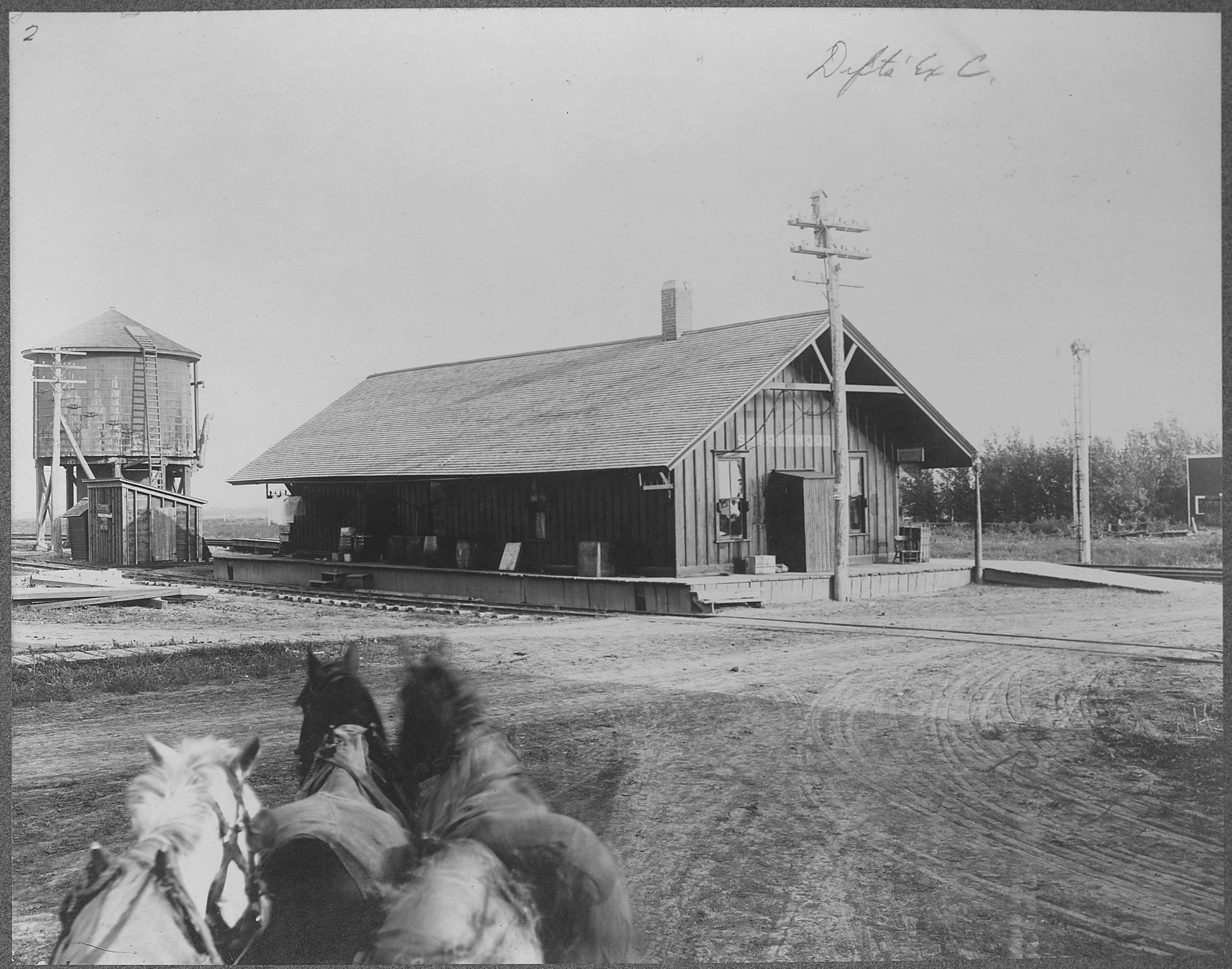 Scope and content: From series of pictures showing the main street, railroad station, grain elevator, and lumber yard.